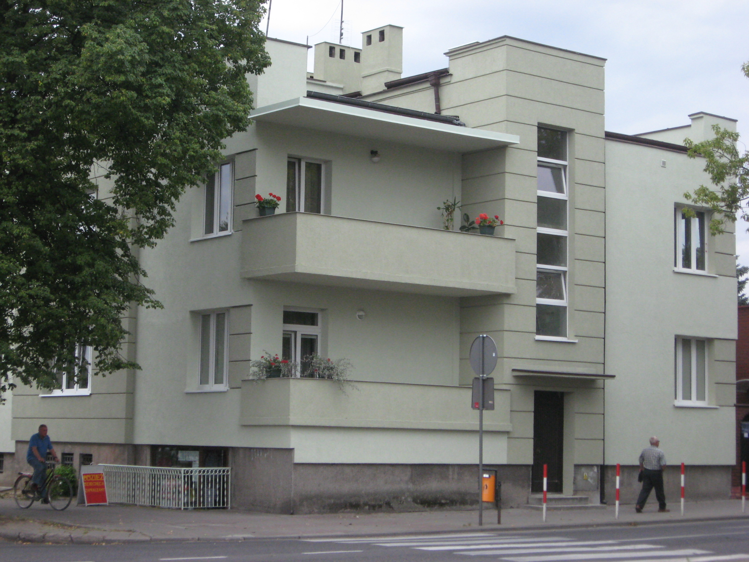 Konin - Tenement-house in Szarych Szeregów street no.1